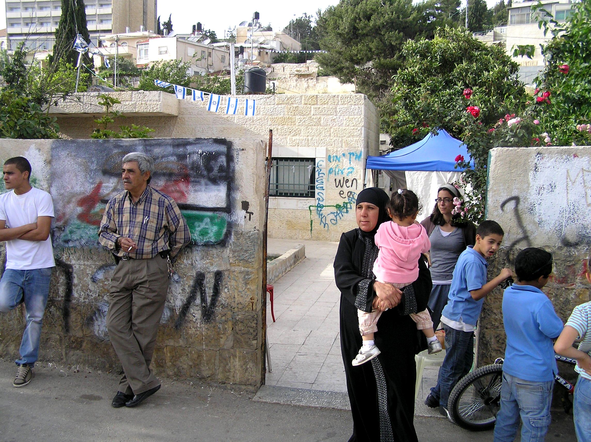 House of Kurd family in Sheikh Jarrah.